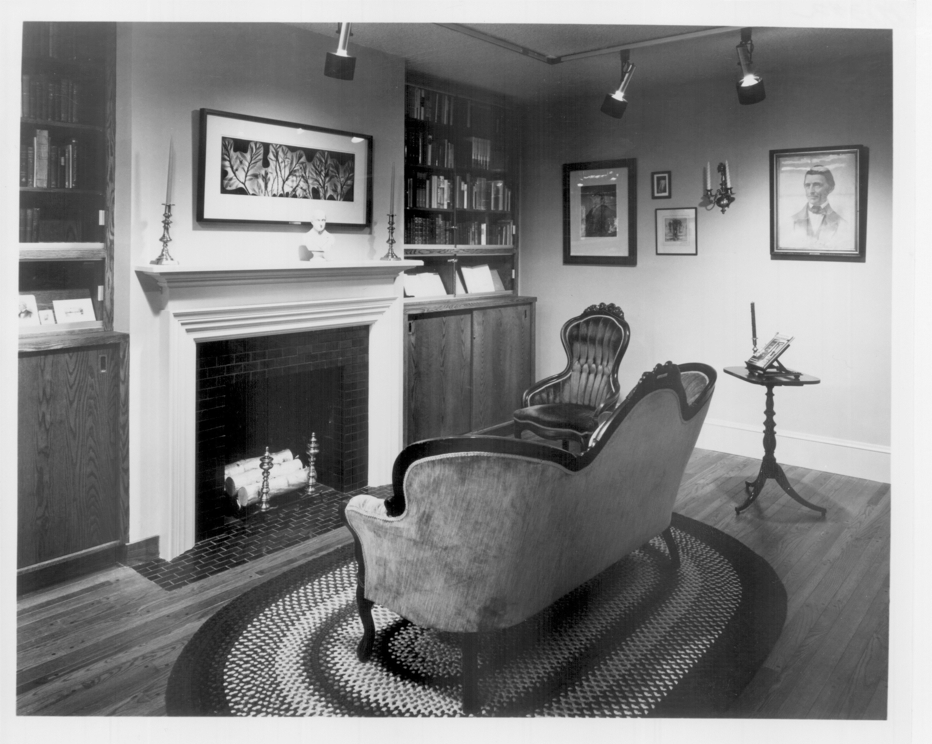 Emerson Room housed the New England literature collection given by Kittleson. It was decorated like the interior of a New England home of the 19th century. The 19th Century Collection is now at Minneapolis Central, Special Collections. Items from the Emerson Room are in storage or in the head of Special Collections office.